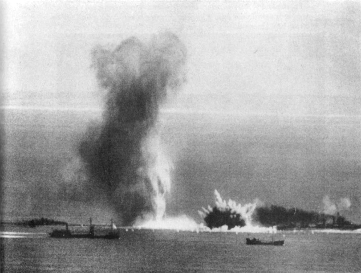 A British convoy under attack by German dive bombers 14 July 1940